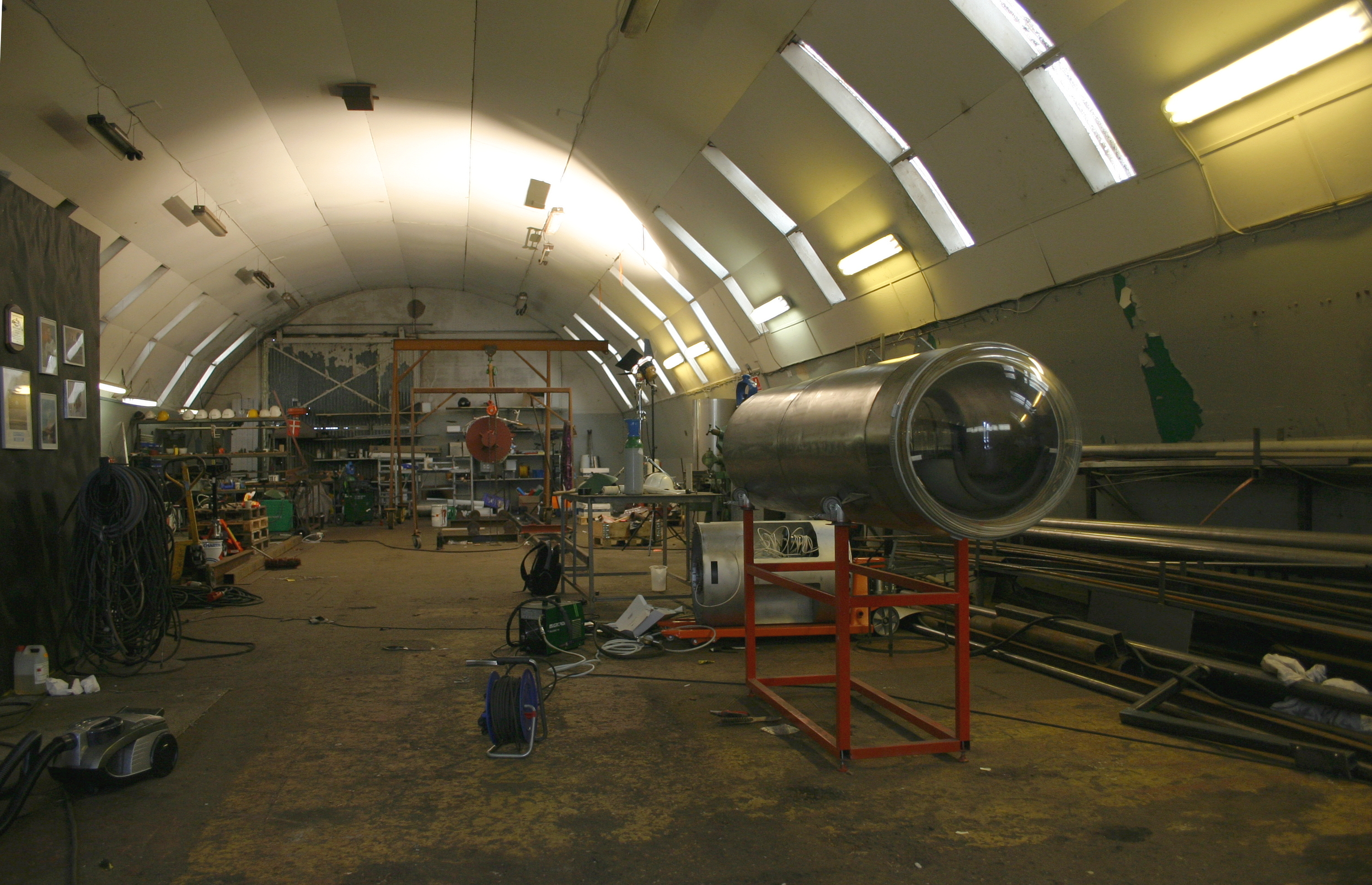 The hangar where Copenhagen Suborbitals builds their rockets. In front is the micro spacecraft (MSC). The hangar is called HAB (Horizontal Assembly Building) to honour NASA's VAB (Vertical/Vehicle Assembly Building) in Florida.